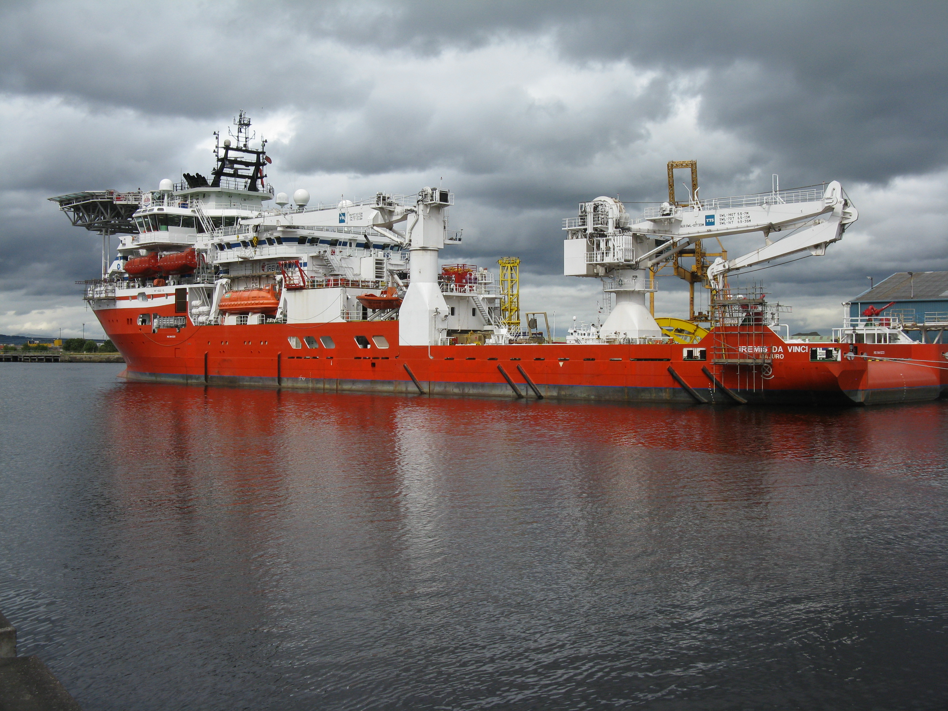 Iremis da Vinci at the Albert Dock Basin, Port of Leith. A multi-purpose diving support vessel, built in the Republic of Korea in 2011, and registered at Majuro, Marshall Islands. It is 115.4m long, has a gross tonnage of 8691t, and is owned by Iremis da Vinci Investment Inc, Sharjah, United Arab Emirates. Iremis was formerly known as Gulmar Offshore Ltd, and has four vessels, including a sister ship to this one, Iremis Atlantis.